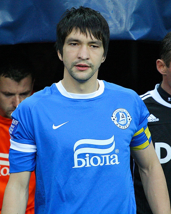 Andriy Rusol